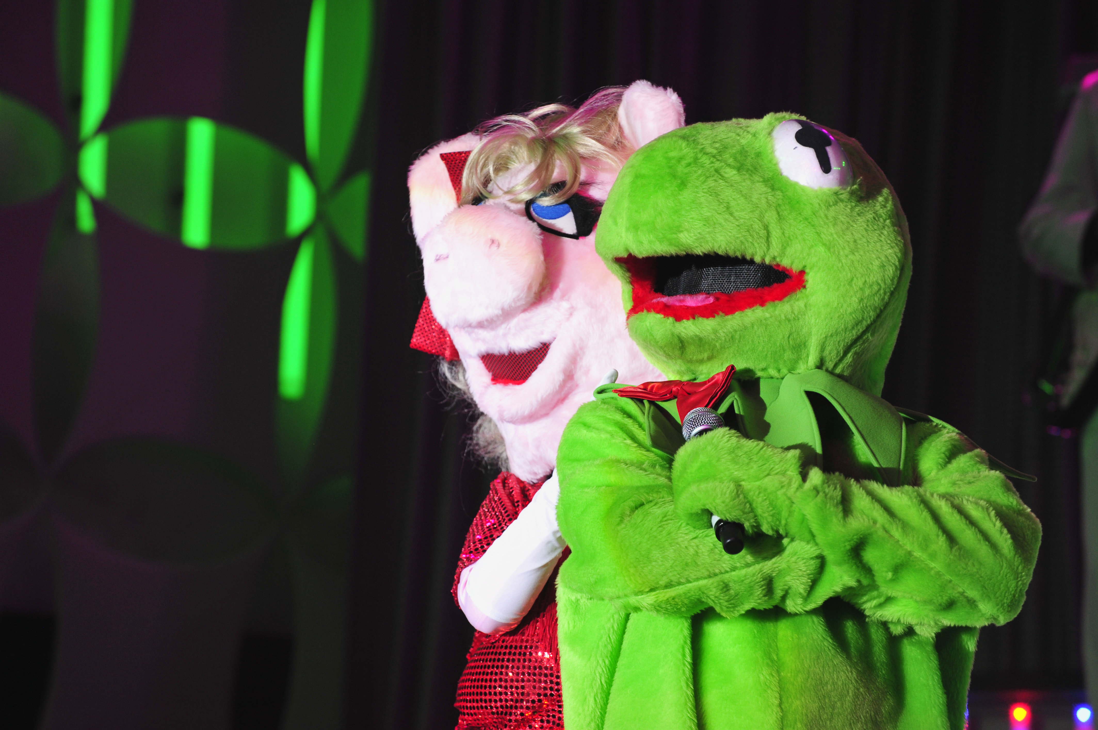 Miss. Piggy and Kermit the Frog make a guest appearance and sing for the crowd during the Tops in Blue performance at the Grand Canyon University Arena in Phoenix, Ariz., June 5, 2012. Unit: 56th Fighter Wing Public Affairs DVIDS Tags: Luke Air Force Base; USAF; 56th Fighter Wing; Thunderbolts; 56FW